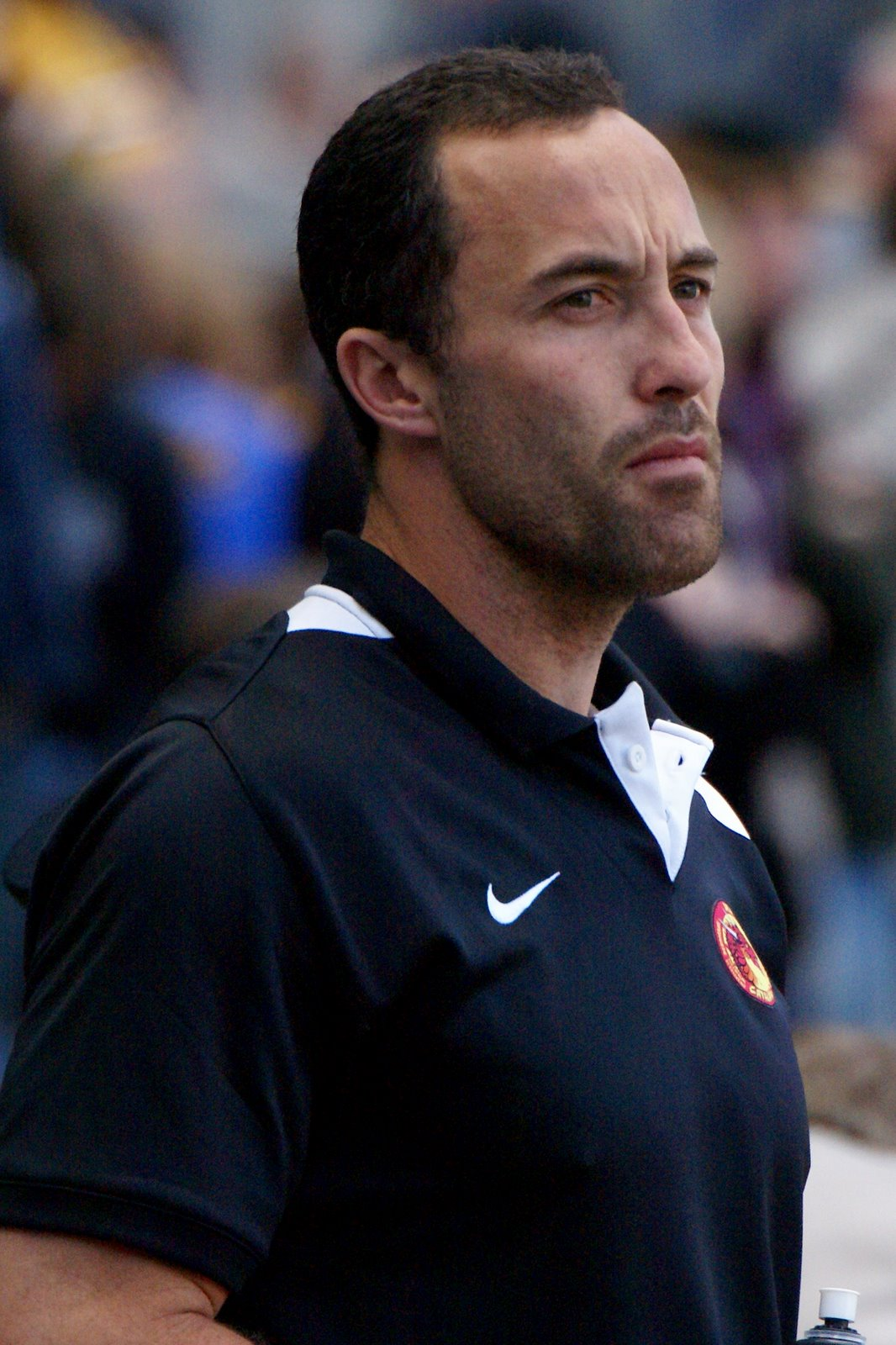 Photo of Adam Mogg at the Magic Weekend at Murrayfield